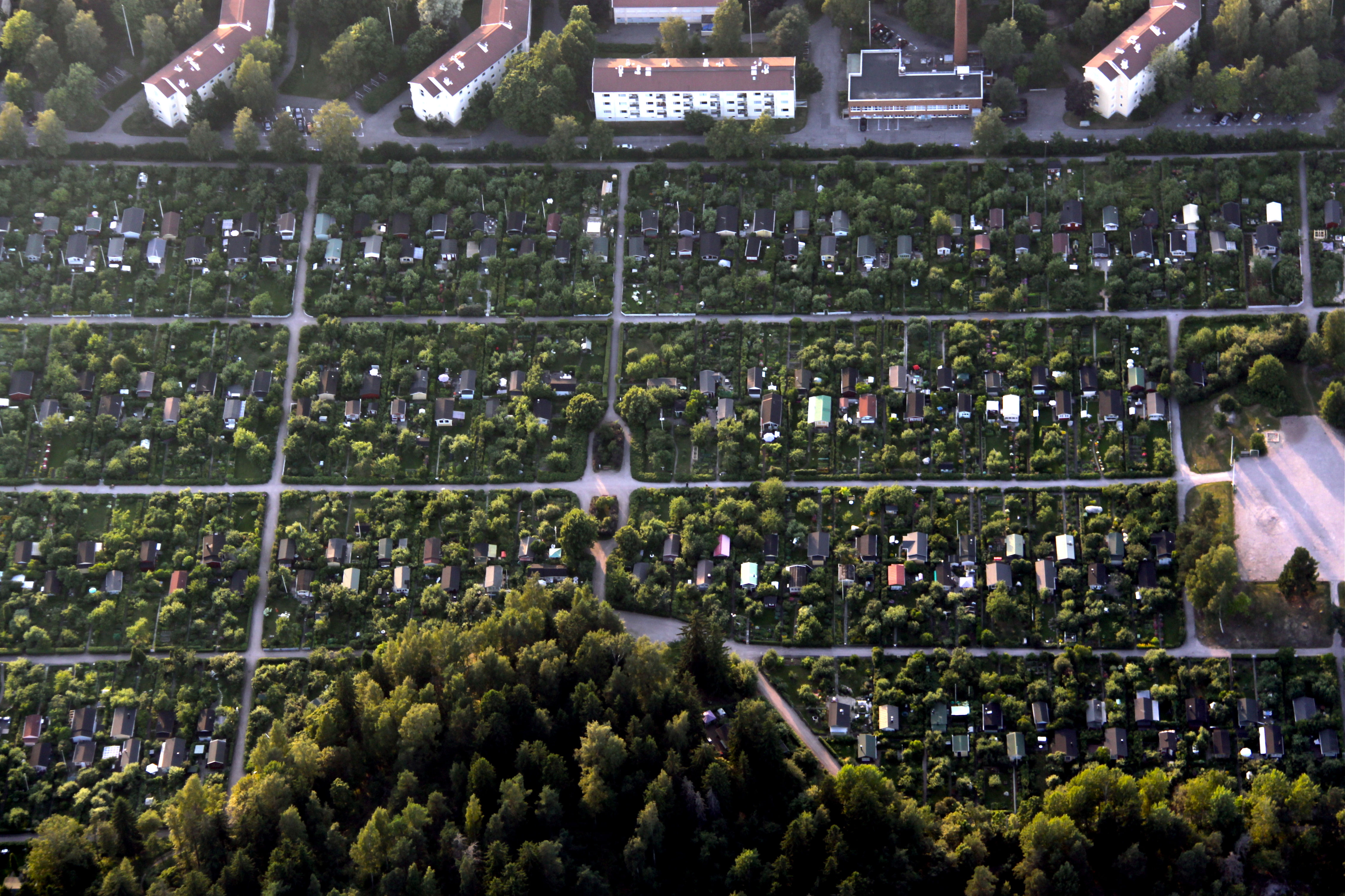 Aerial photograph of Kumpula Allotment Garden in Helsinki